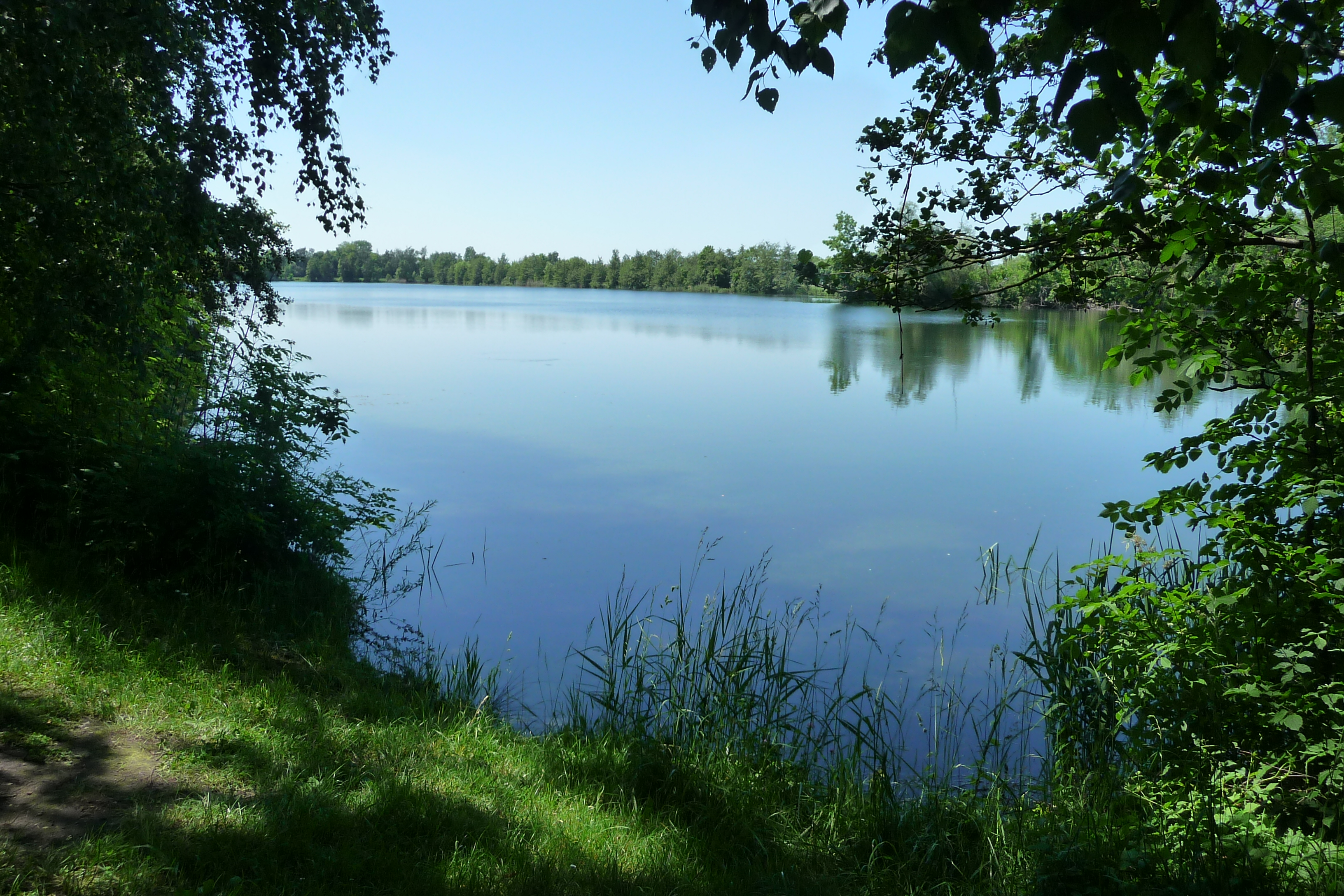 Der Zeller See entstand DURCH zahlreiche Kiesentnahme zum Bau EINES Nato-Flugplatzes.